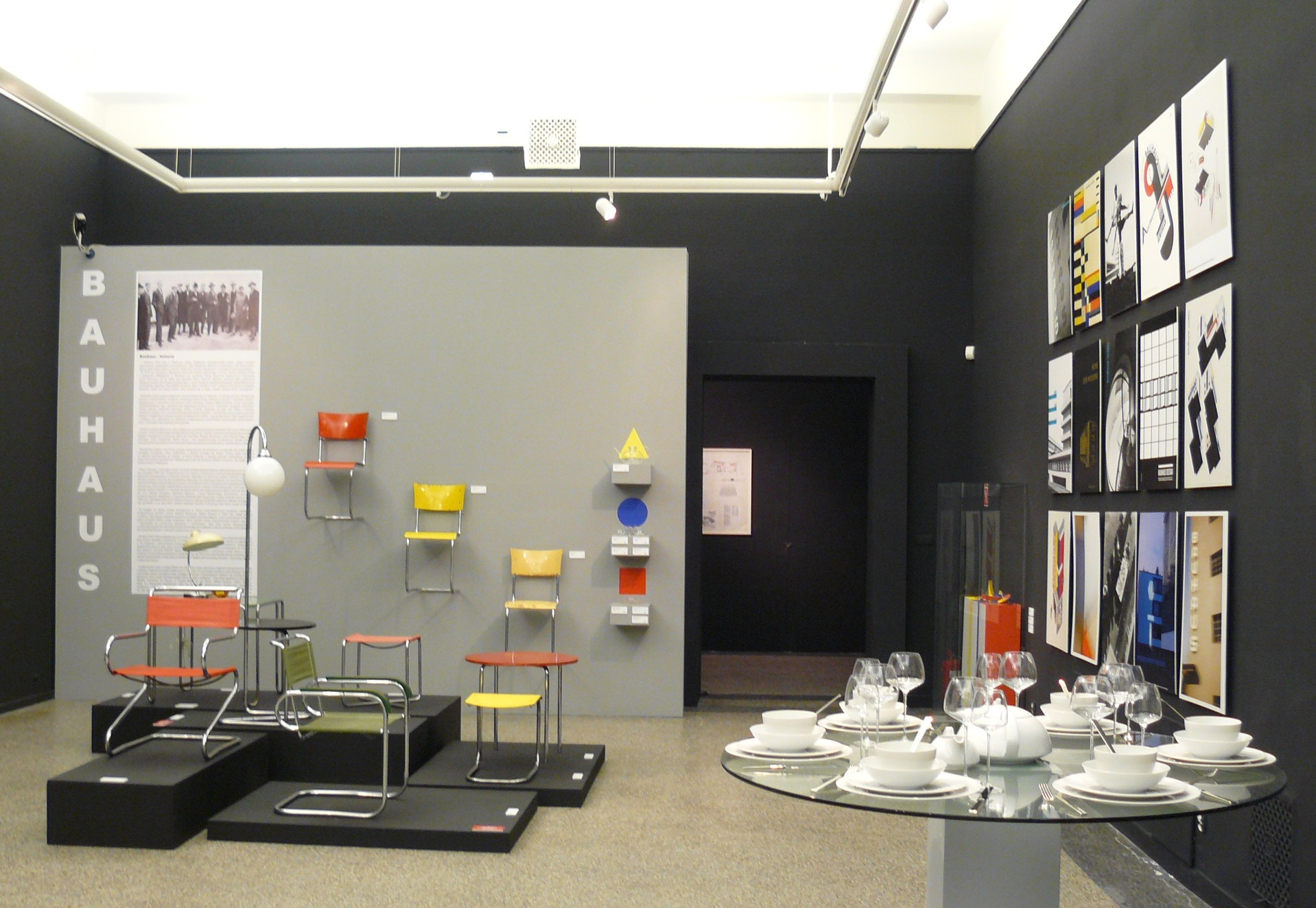 Bauhaus - Exhibition at the National Museum. Poznan. January 2012.